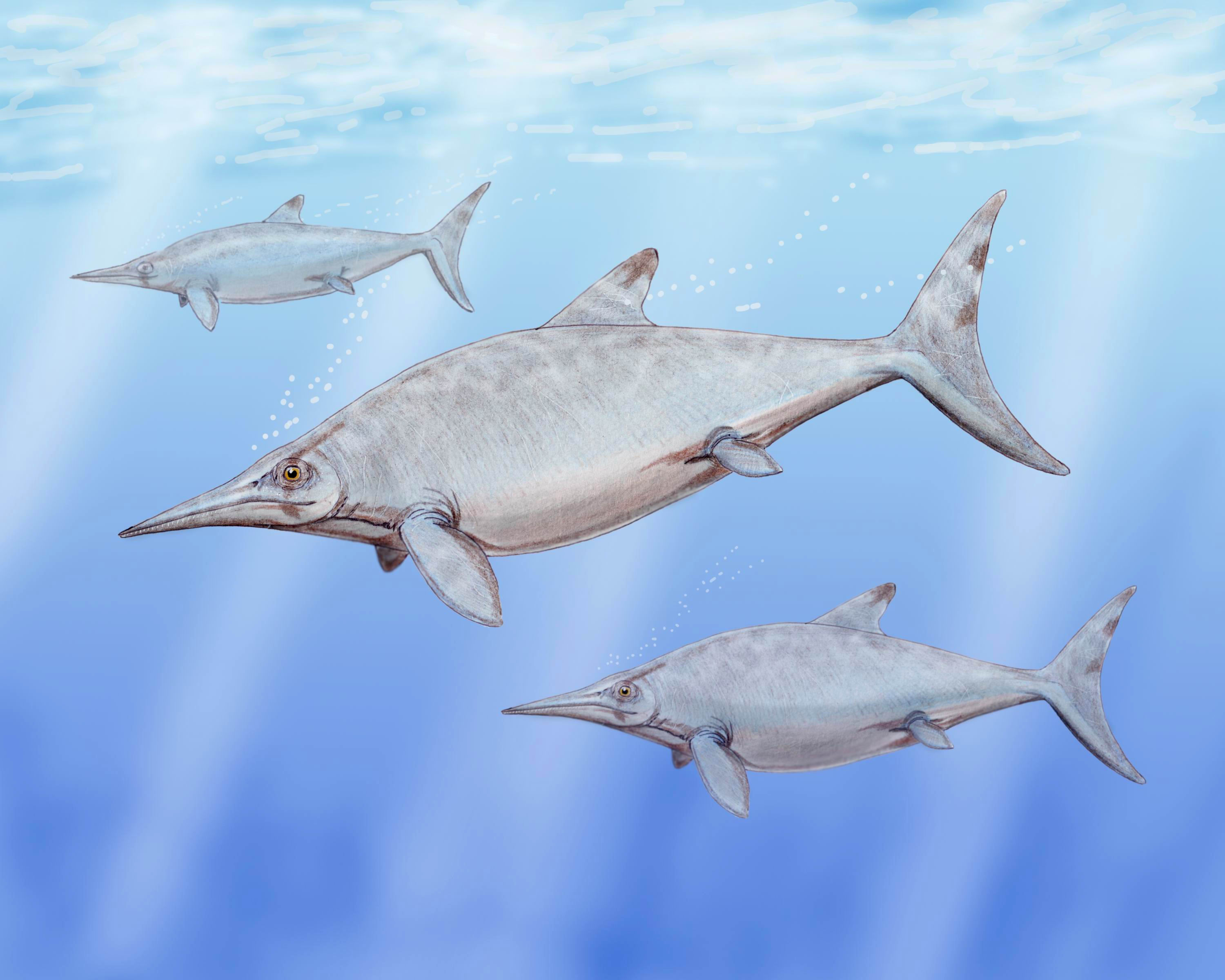 Brachypterygius (formerly Otschevia) zhuravlevi - from lower Volgian (Tithonian, uppermost Jurassic) of Ulianovsk region.